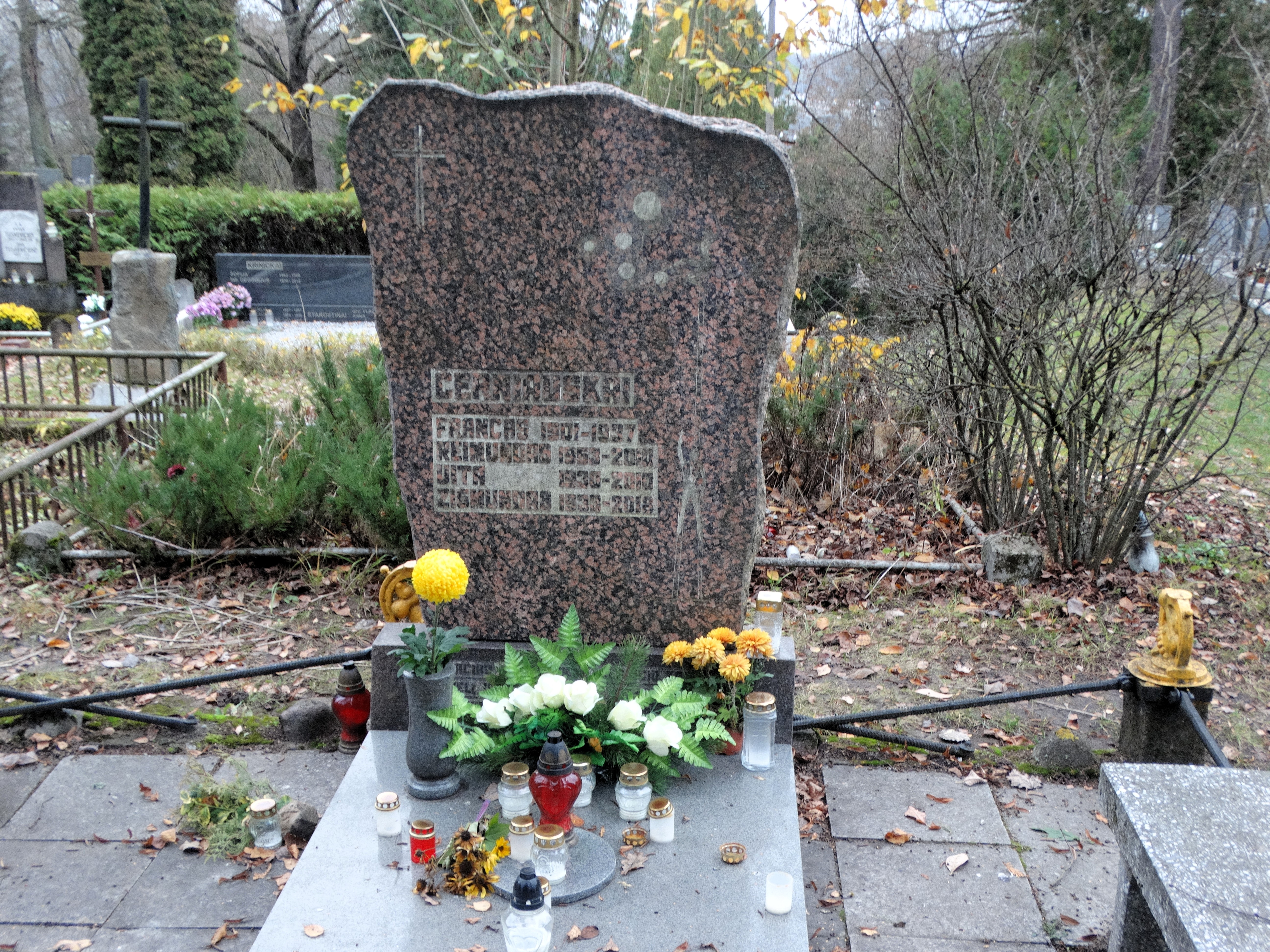 Tomb of Zigmundas Černiauskas, circus artist, Eiguliai cemetery, Lithuania